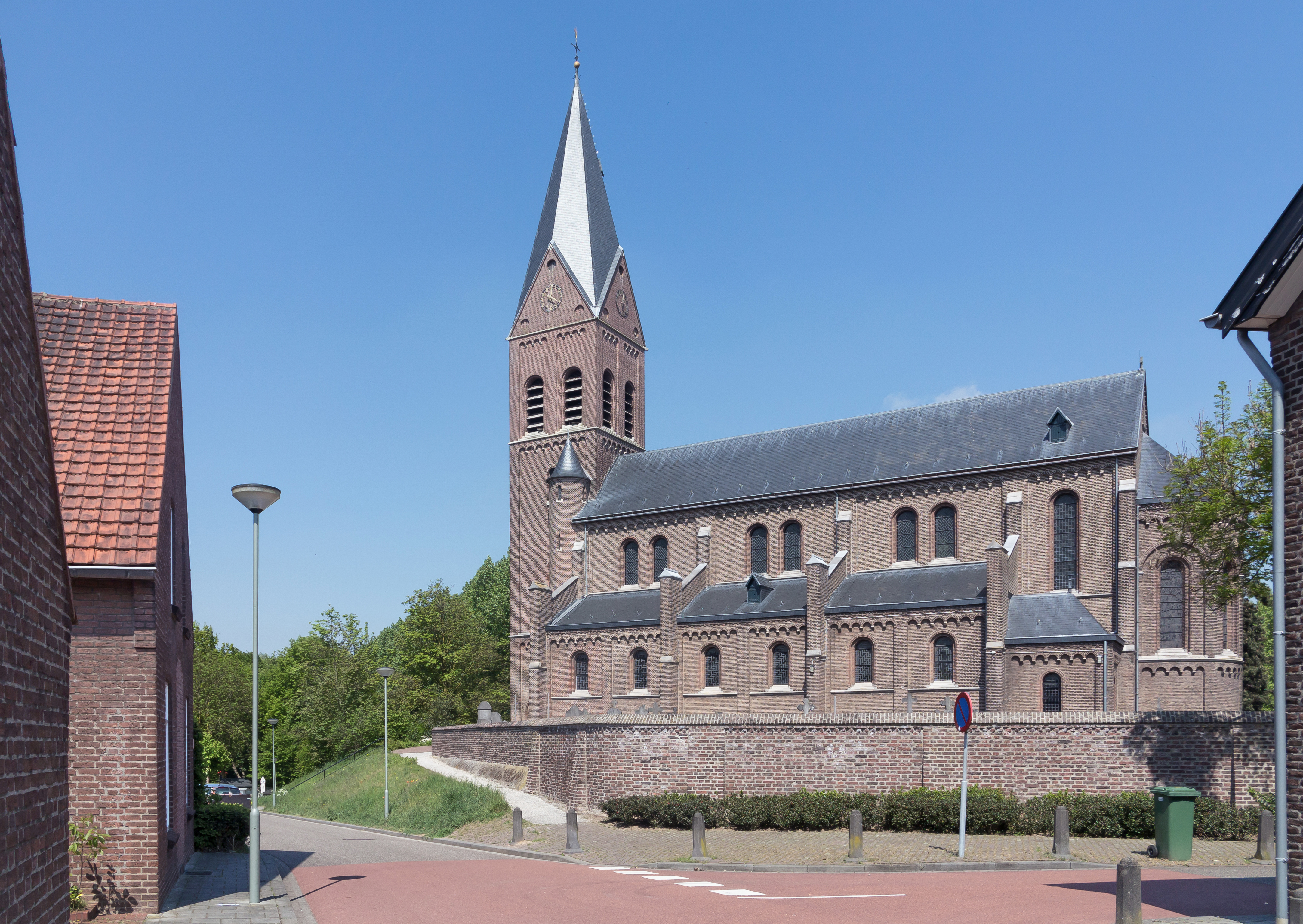 Linne, church: de Sint-Martinuskerk